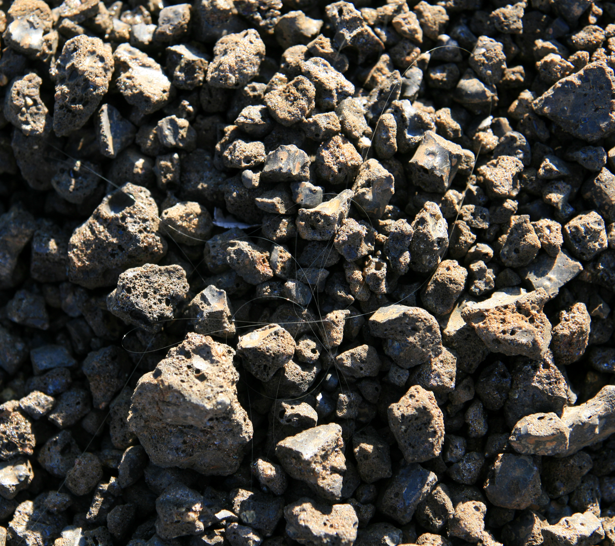 Pele's hair on Devastation trail in Hawaii Volcanoes National Park